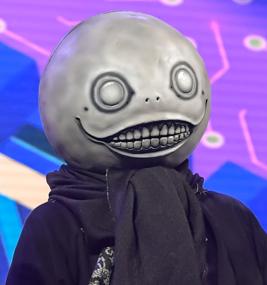 Yoko Taro, Japanese video game developer